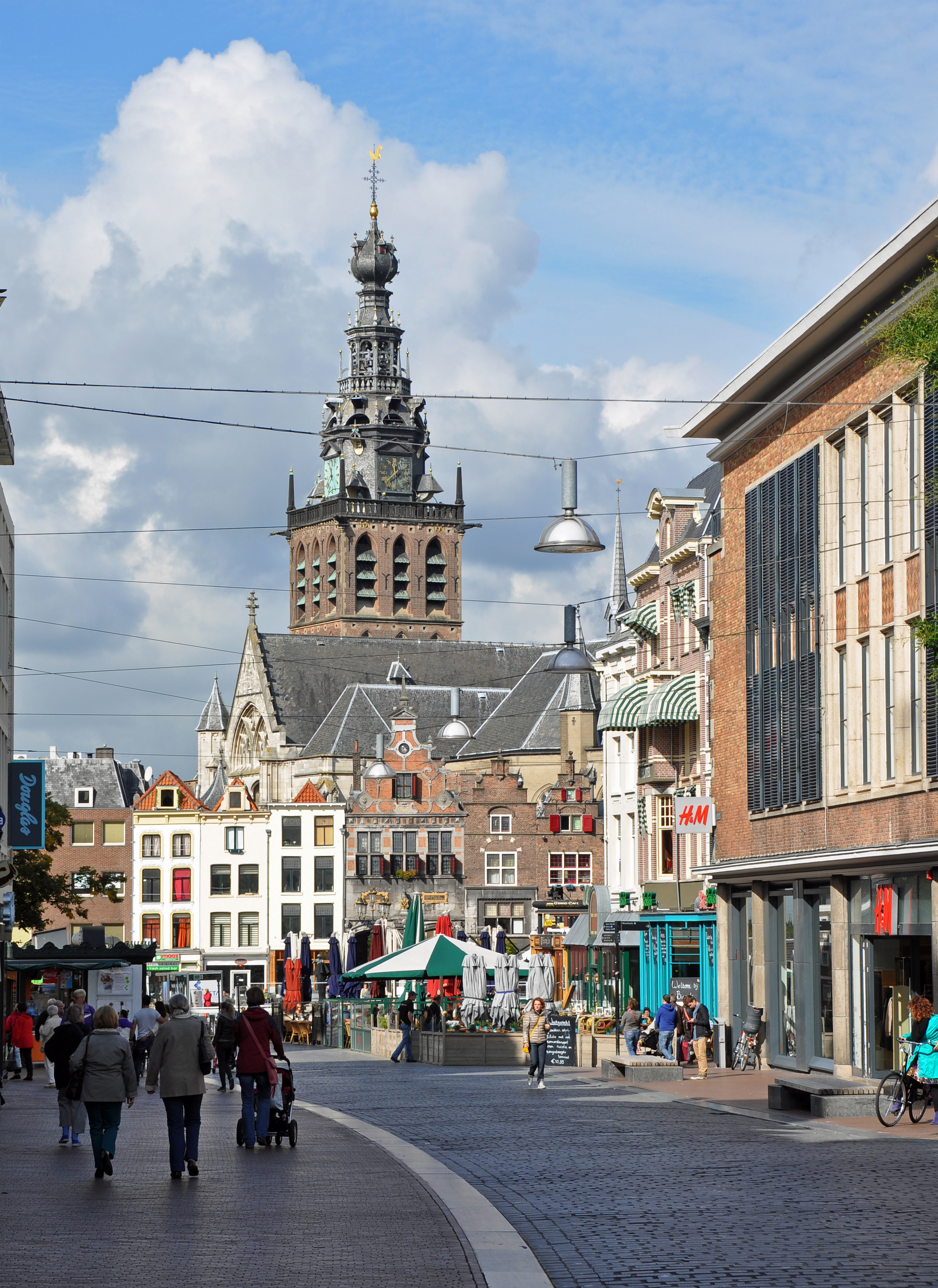 Nijmegen (the Netherlands): the Market Place and the tower of the St Stevens church, seen from the Burchtstraat